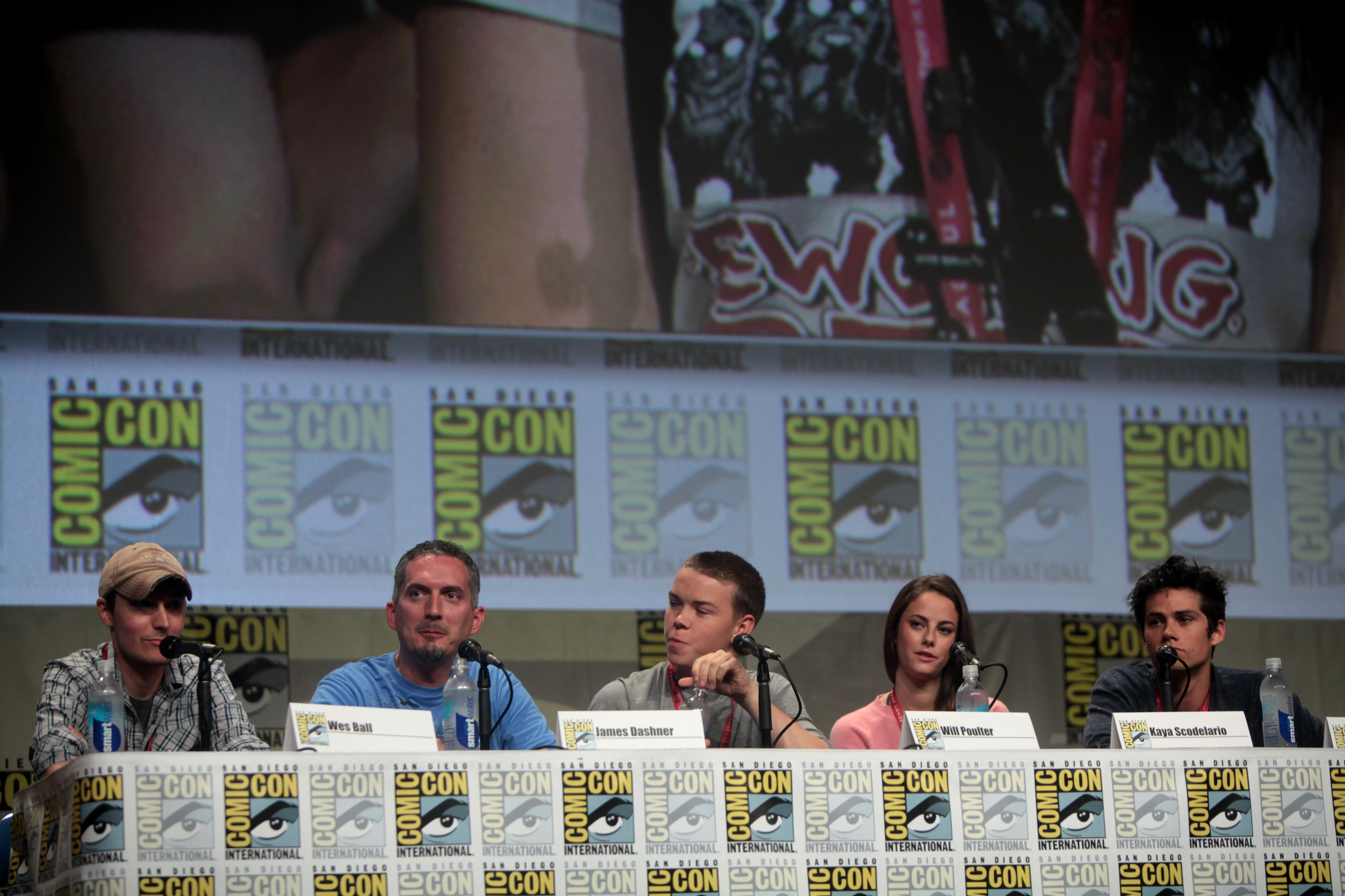 Wes Ball, James Dashner, Will Poulter, Kaya Scodelario and Dylan O'Brien speaking at the 2014 San Diego Comic Con International, for "The Maze Runner", at the San Diego Convention Center in San Diego, California.